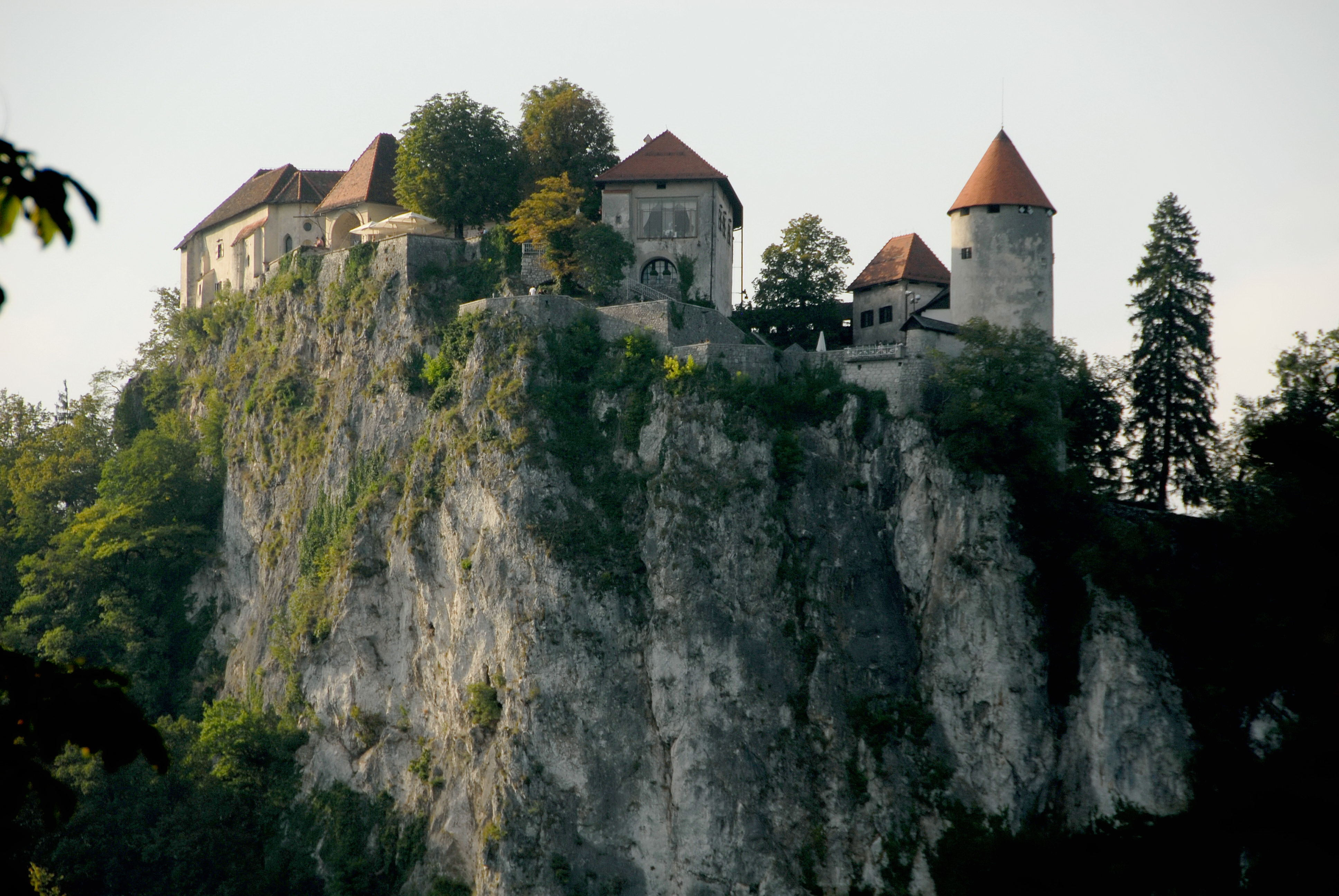 Bled castle, Bled, Slovenia